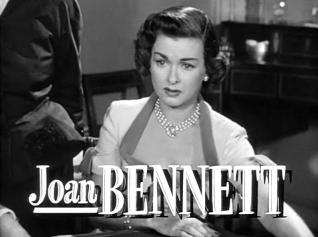 Cropped screenshot of Joan Bennett from the trailer for the film Father's Little Dividend